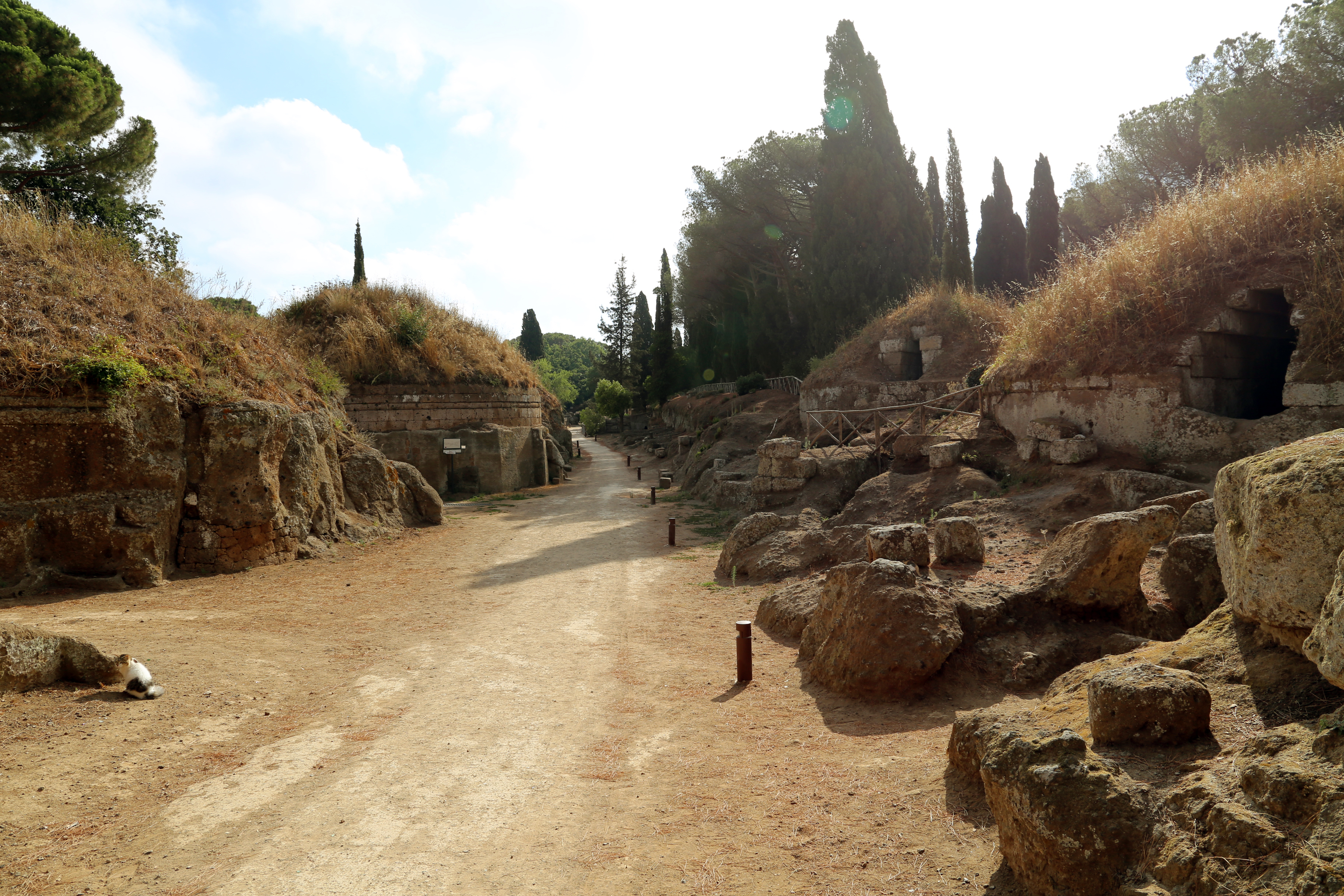 Banditaccia (Cerveteri)